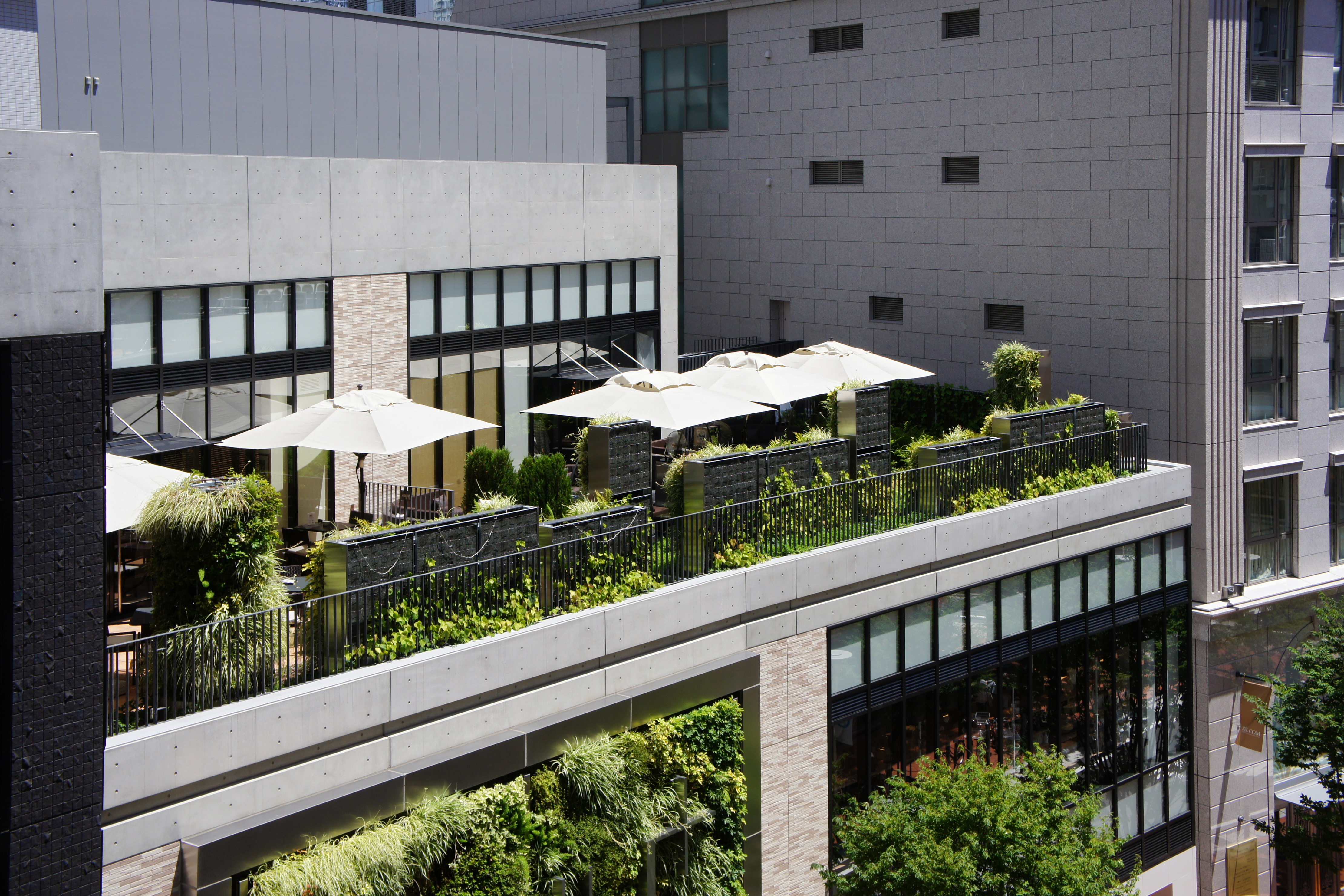 at Chayamachi, Kita-ku, Osaka, Osaka prefecture, Japan